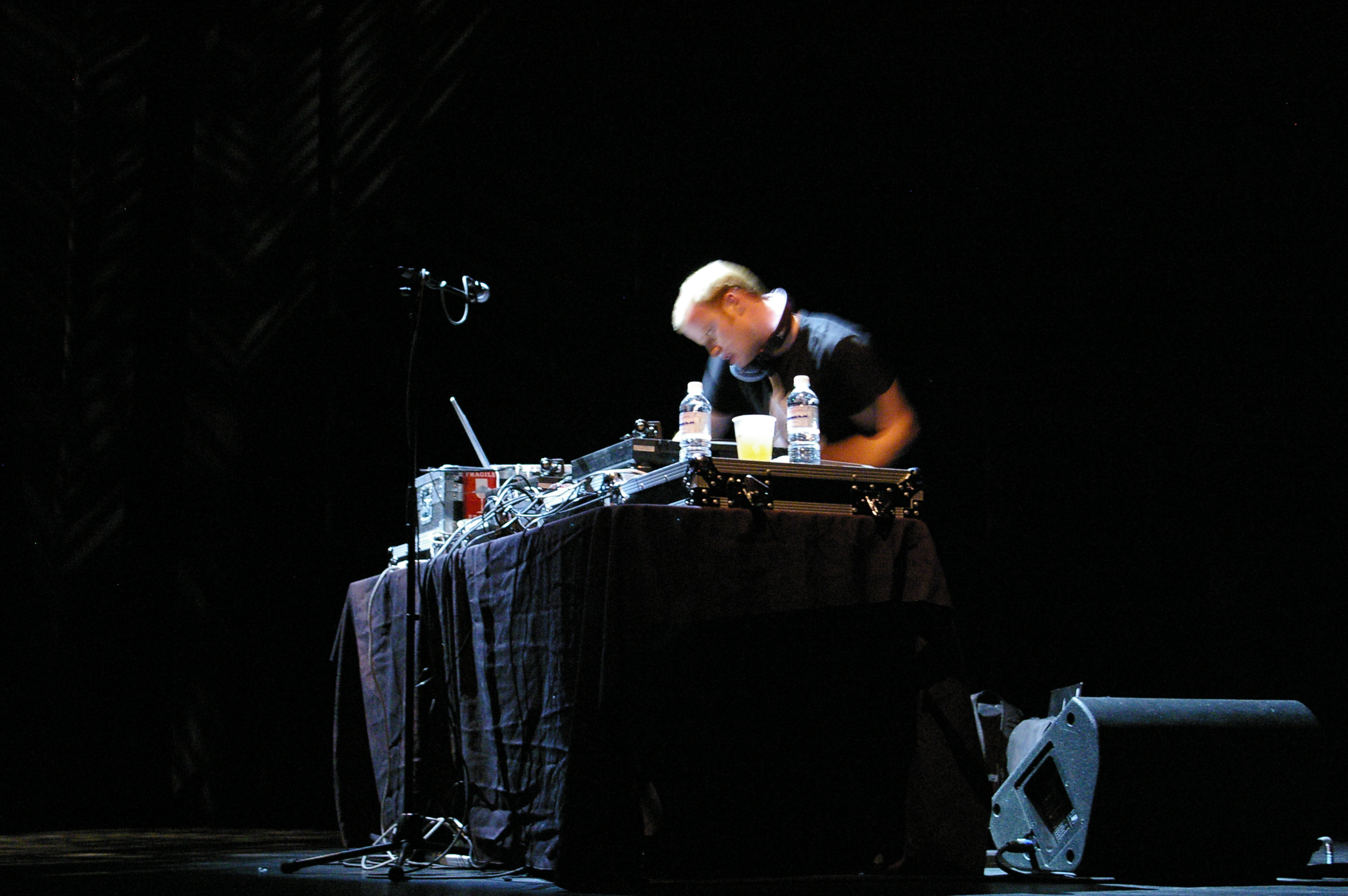 Skratch Bastid was entertaining. I felt myself smiling a lot during his set. It could have been his boyish good looks.